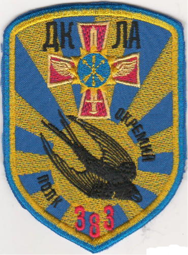 Shoulder sleeve insignia of the Ukrainian Air Force 383rd Unmanned Aerial Vehicle Regiment